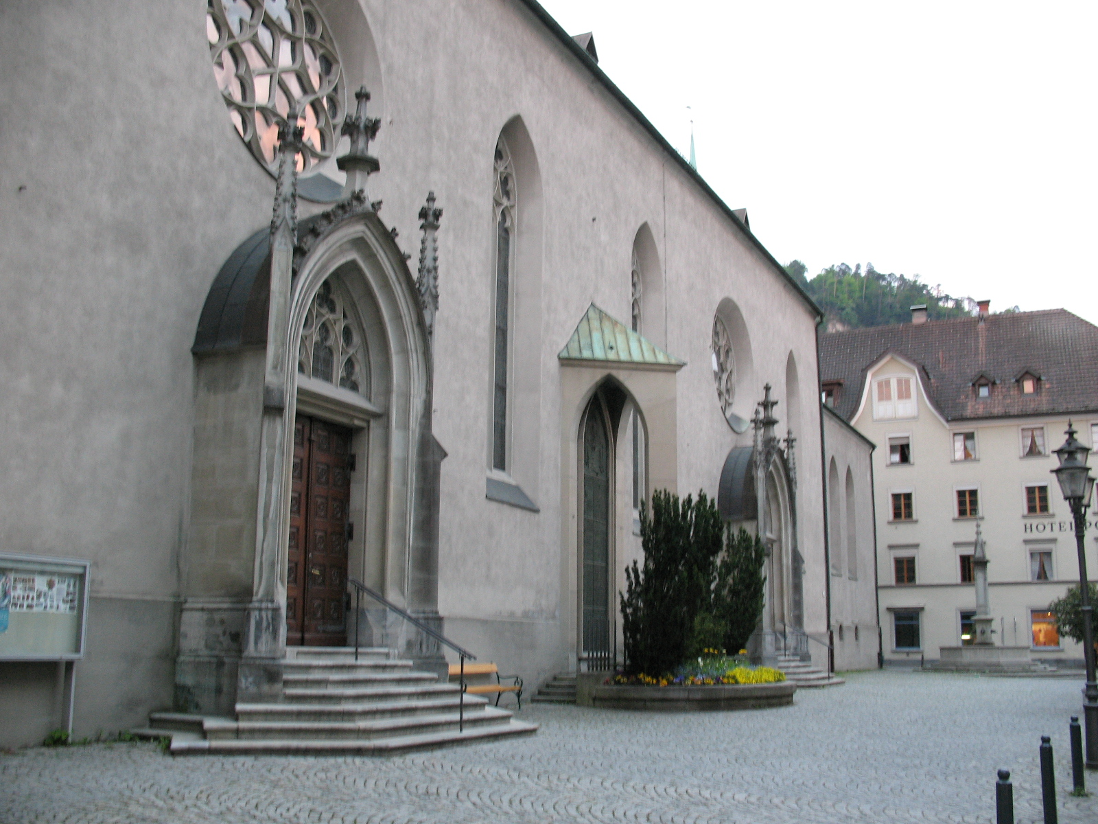 Feldkirch city cenrte, Catholic Cathedral on the left